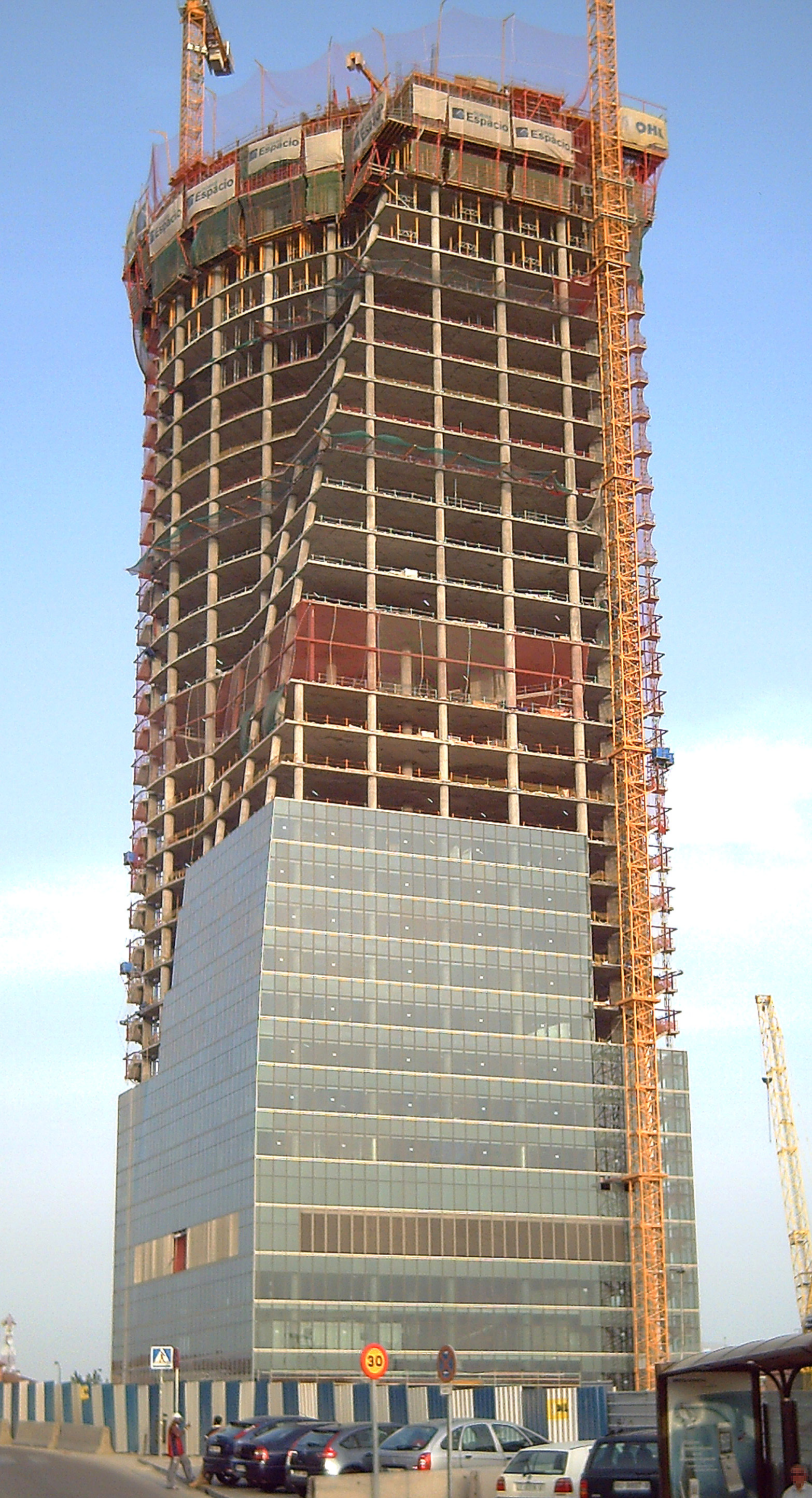 Torre Espacio, in Cuatro Torres Business Area (Madrid, Spain).